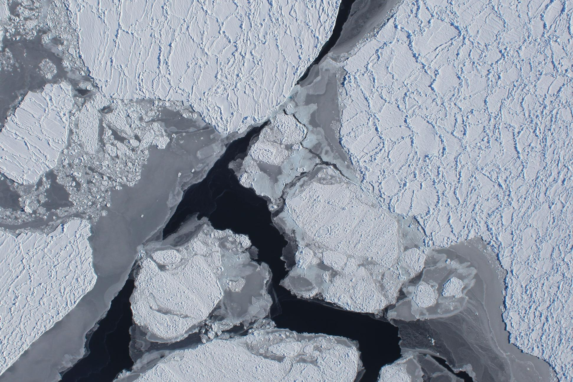 The first flight of Operation Ice Bridge’s Antarctic campaign flew Oct. 16, 2009, along the Amundsen Coast. The aircraft’s downward-looking Digital Mapping System camera captured images of sea ice from an altitude of at least 20,000 feet.